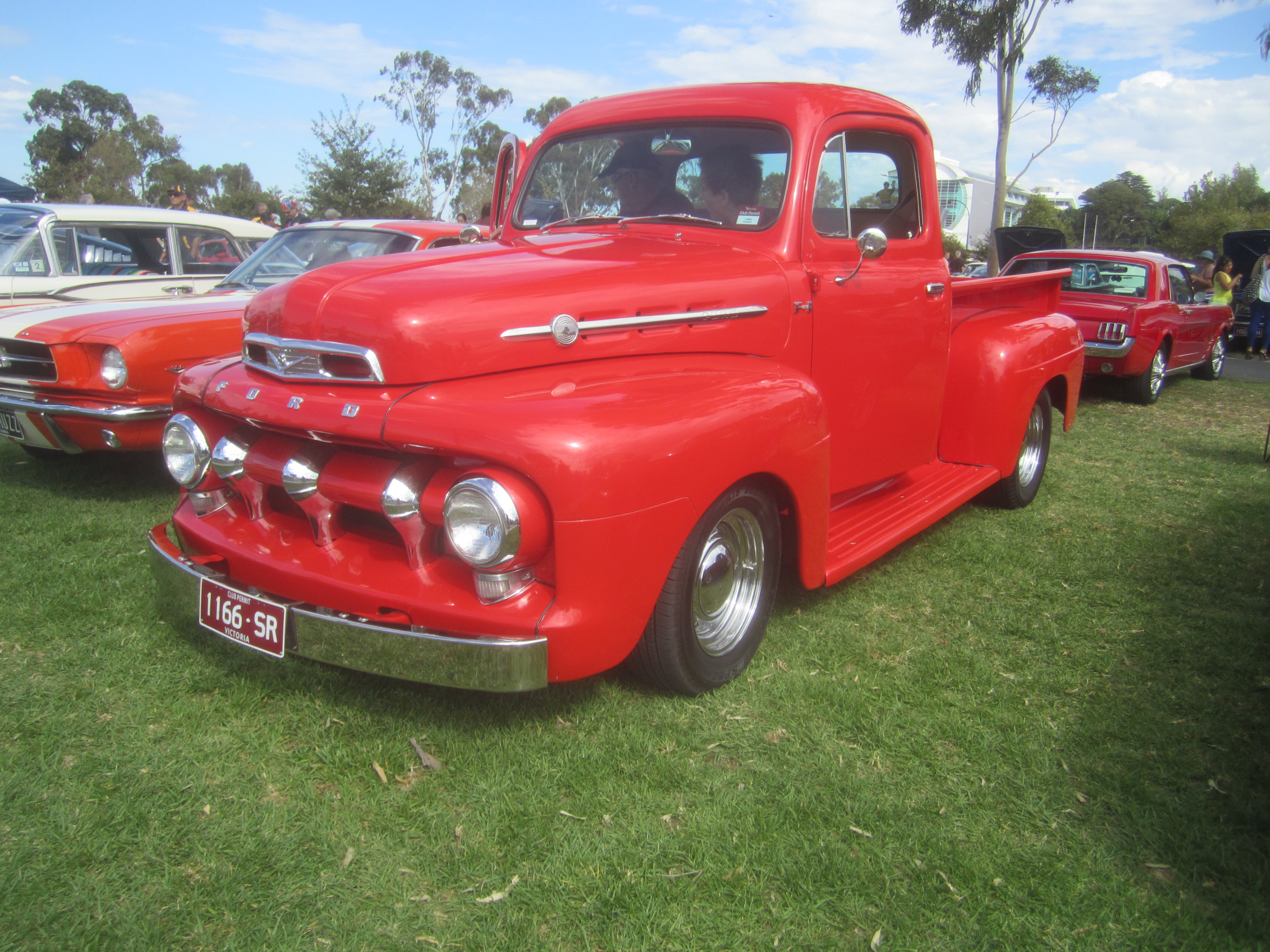 Vermillion. The first F-Series truck was introduced in 1948 as a replacement for the previous car-based pickup. It was the predecessor for the F100. The styling was changed for 1951 and 1952, the headlights were connected by a wide aerodynamic cross piece with three similarly aerodynamic supports and the dashboard was redesigned. Engines; 226 6 cyl or 239 Flathead V8